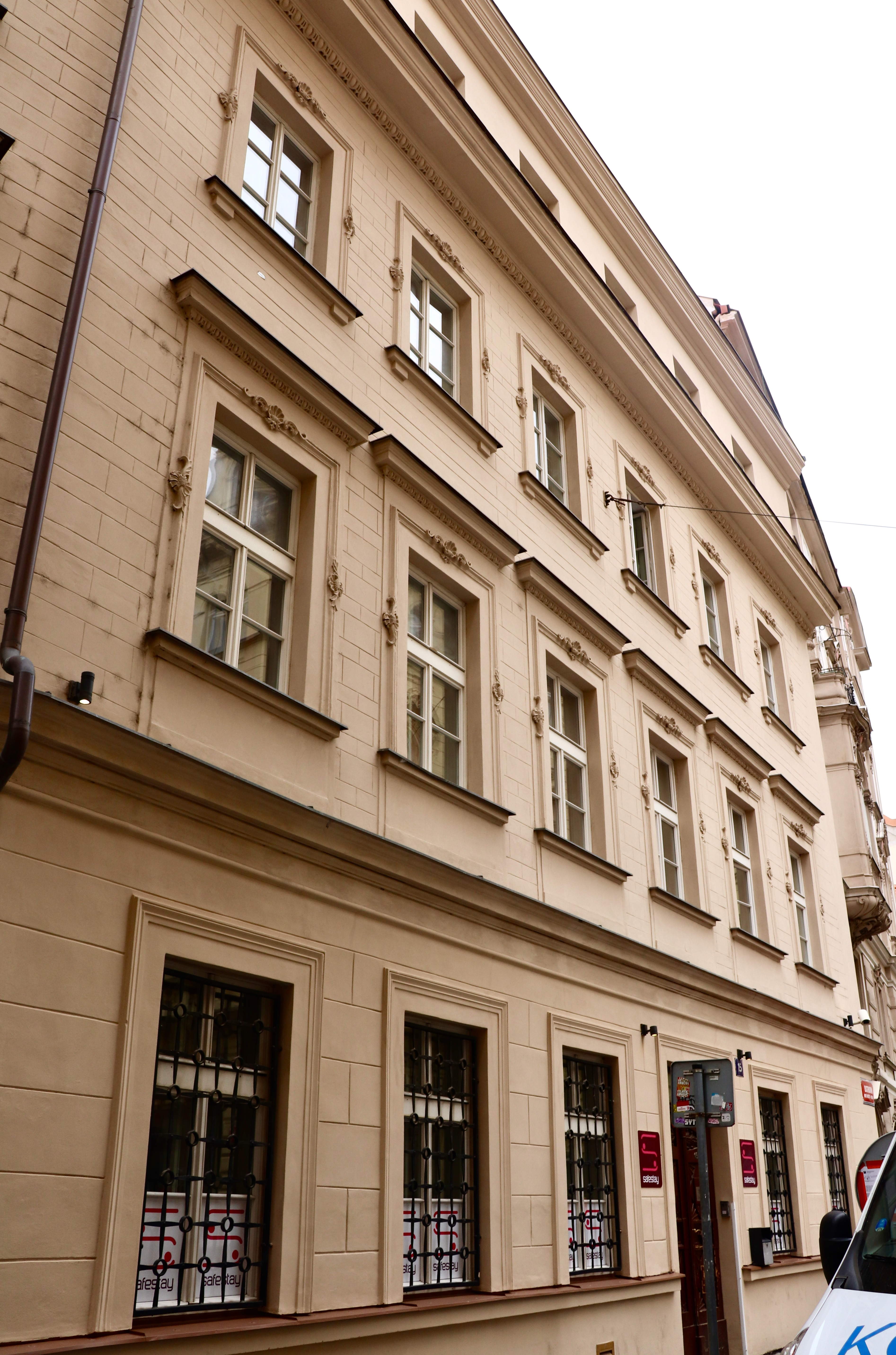 Pohled na dům